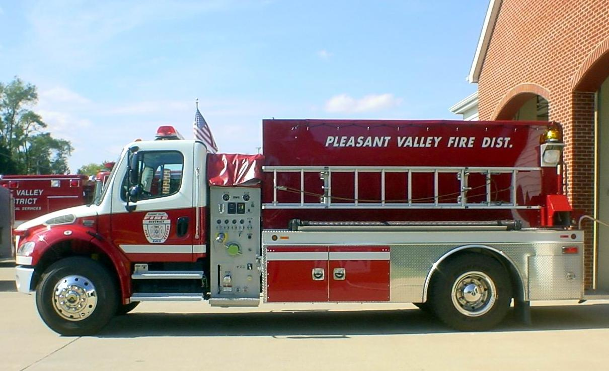 2004 S&S Freightliner tanker truck, photographed October 11, 2009 by Adolphus79.